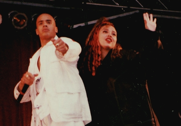 2 Unlimited performing live, 1994.